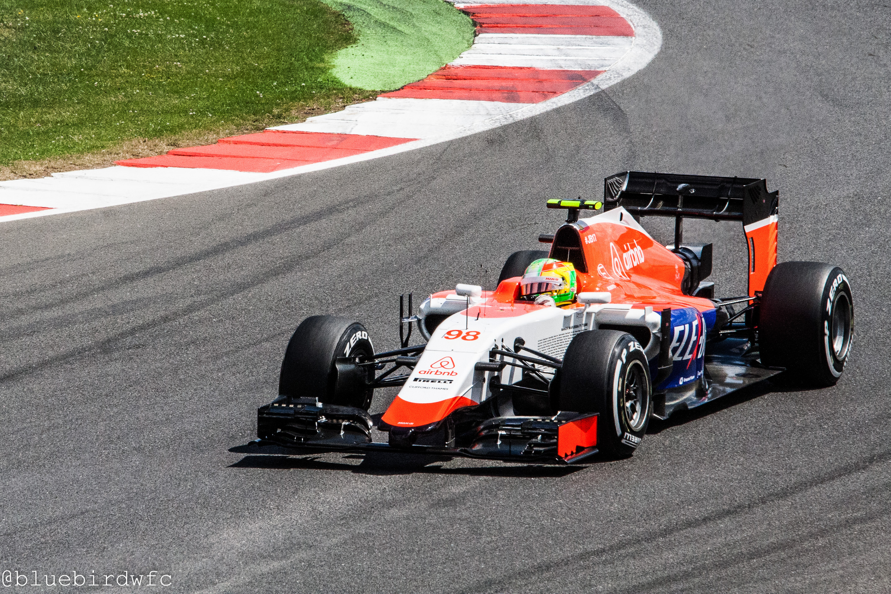 150704 F1 British Grand Prix Day Three-307